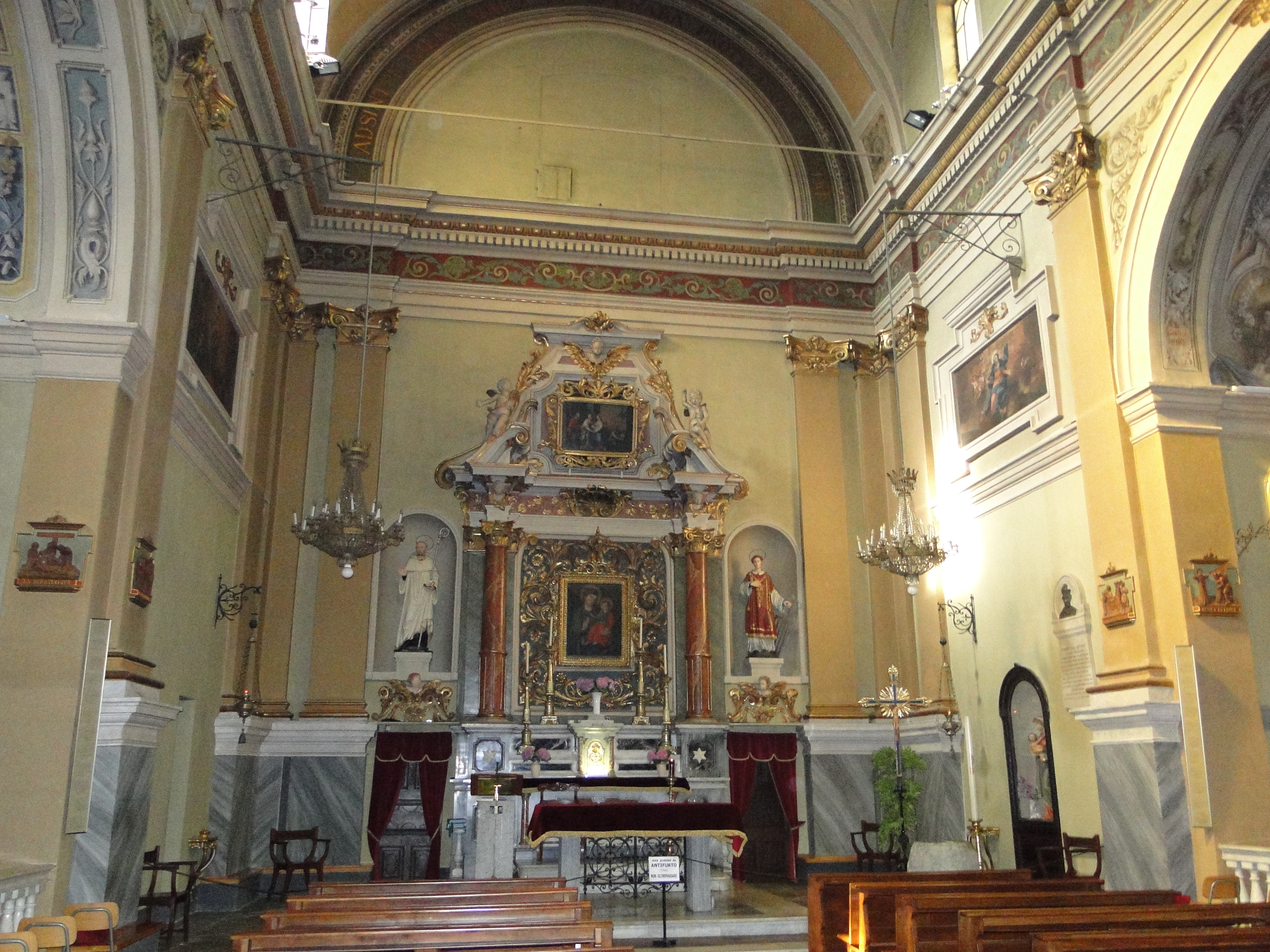 Church uf the Visitation of the Holy Virgin and St Barnaby in Turin (Italy)